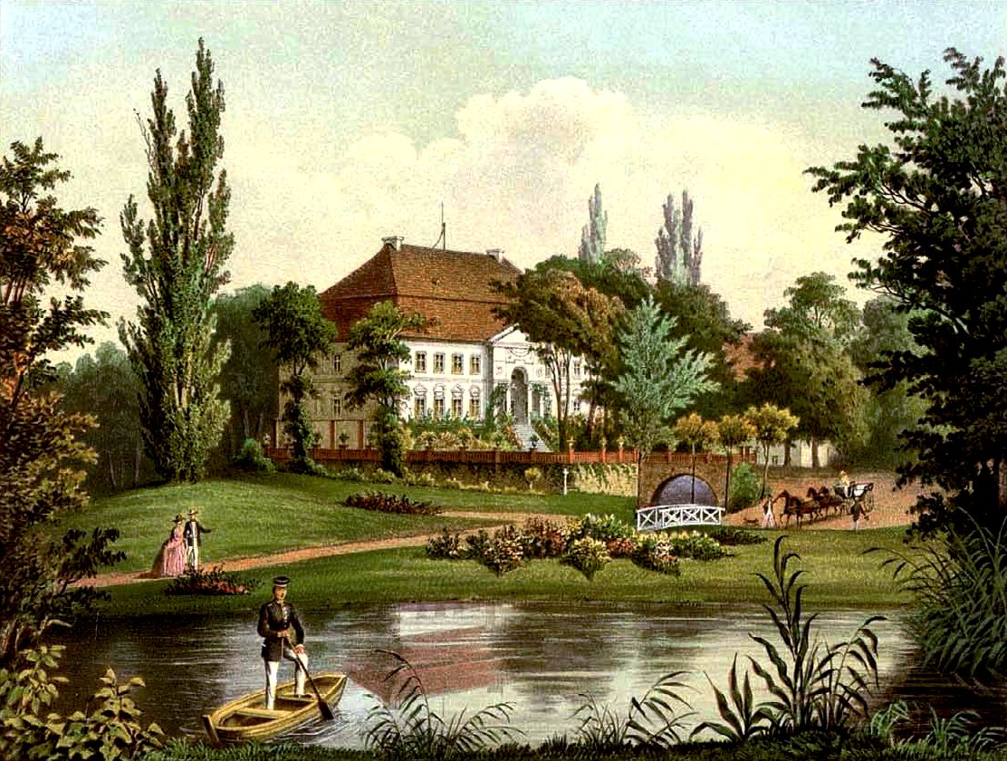 Palace in Caesarzowice